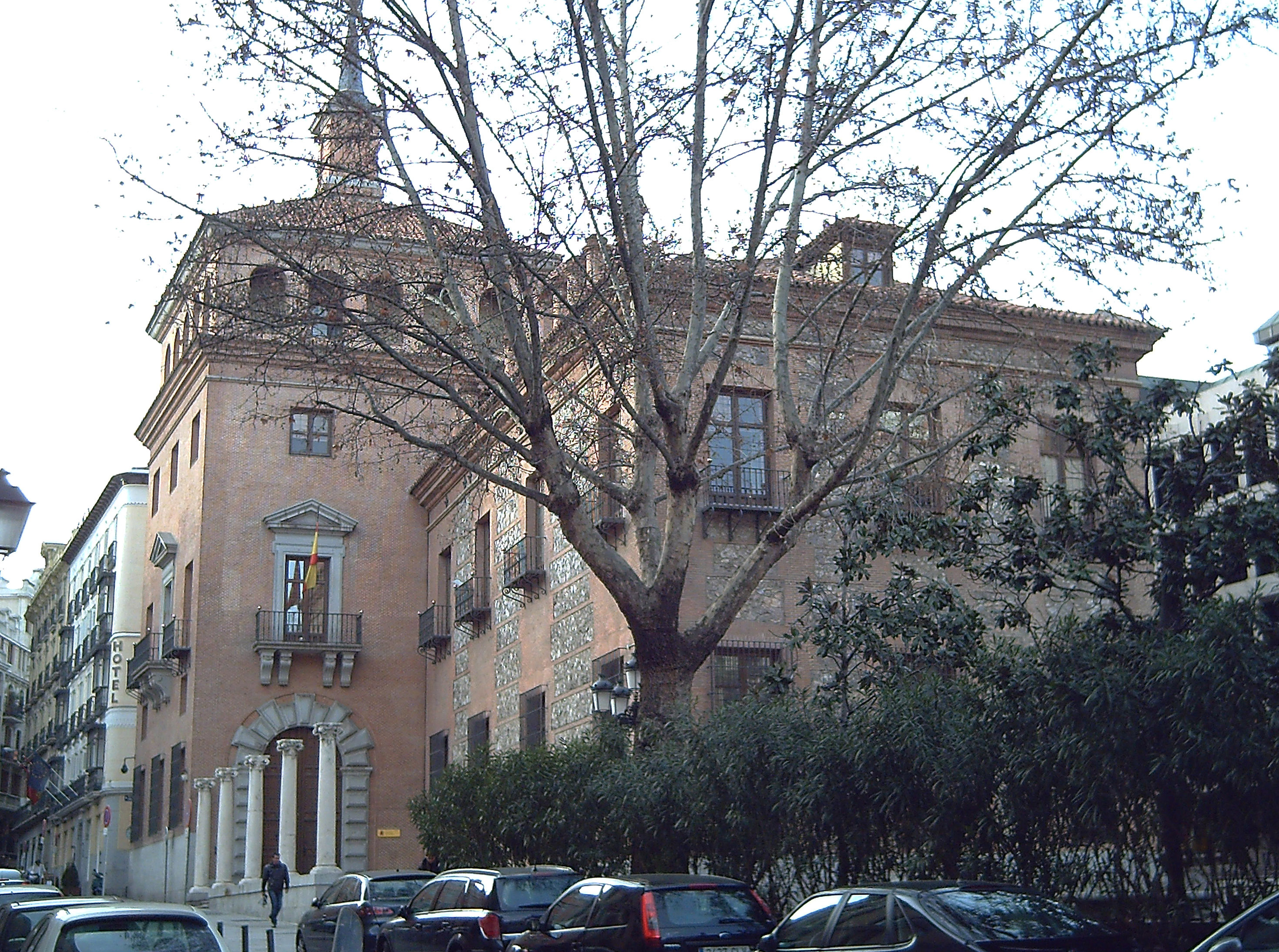 Façade of Casa de las Siete Chimeneas (literally "House of the Seven Chimneys") at 1 Plaza del Rey (square) in Madrid (Spain). Projected in 1574 by Antonio Sillero and built from 1574 to 1577; extended in 1586 by Andrea de Lurano; altered in 1877 by Agustín Ortiz de Villajos and in 1882 by Manuel Antonio Capo. Since the 1980's it's the Spanish Ministry of Culture headquarters.